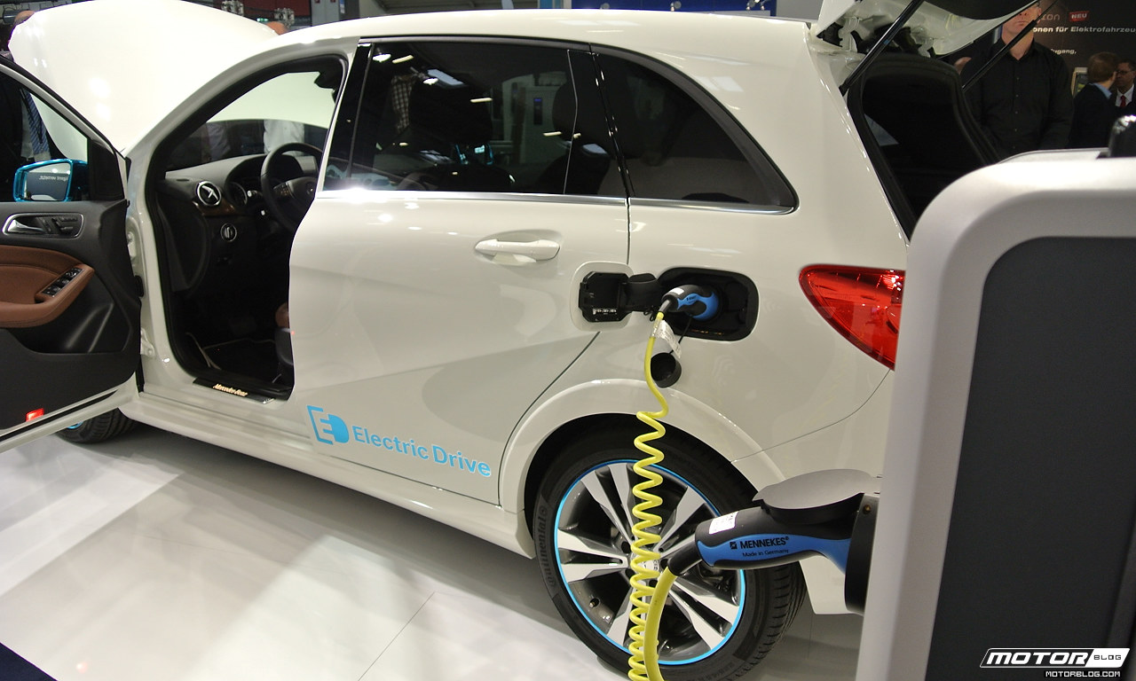 eCarTec Munich 2013: Mercedes-Benz B-class Electric Drive